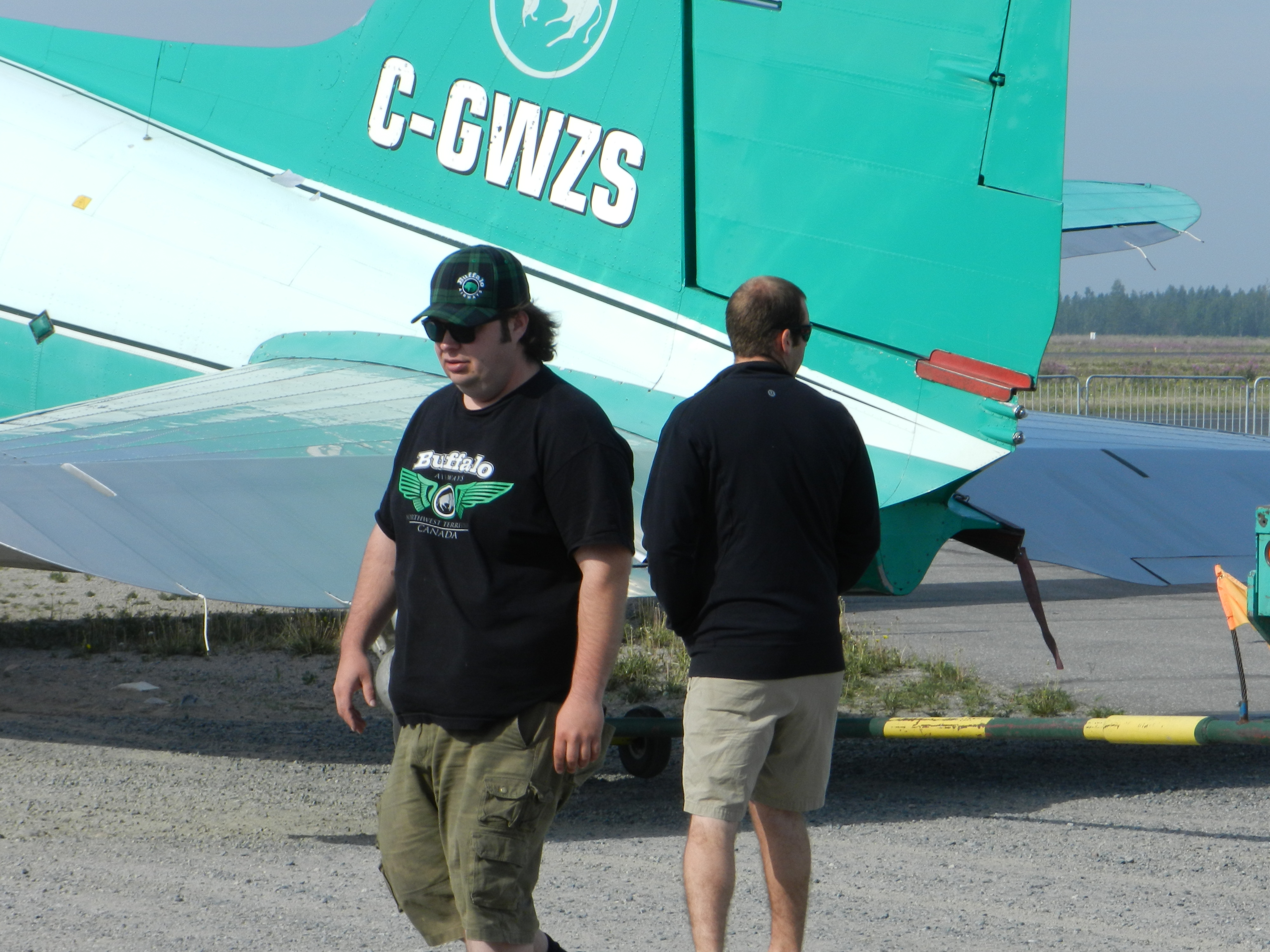 Mike McBryan and Co-Pilot Jeff Tapper of Buffalo Airways